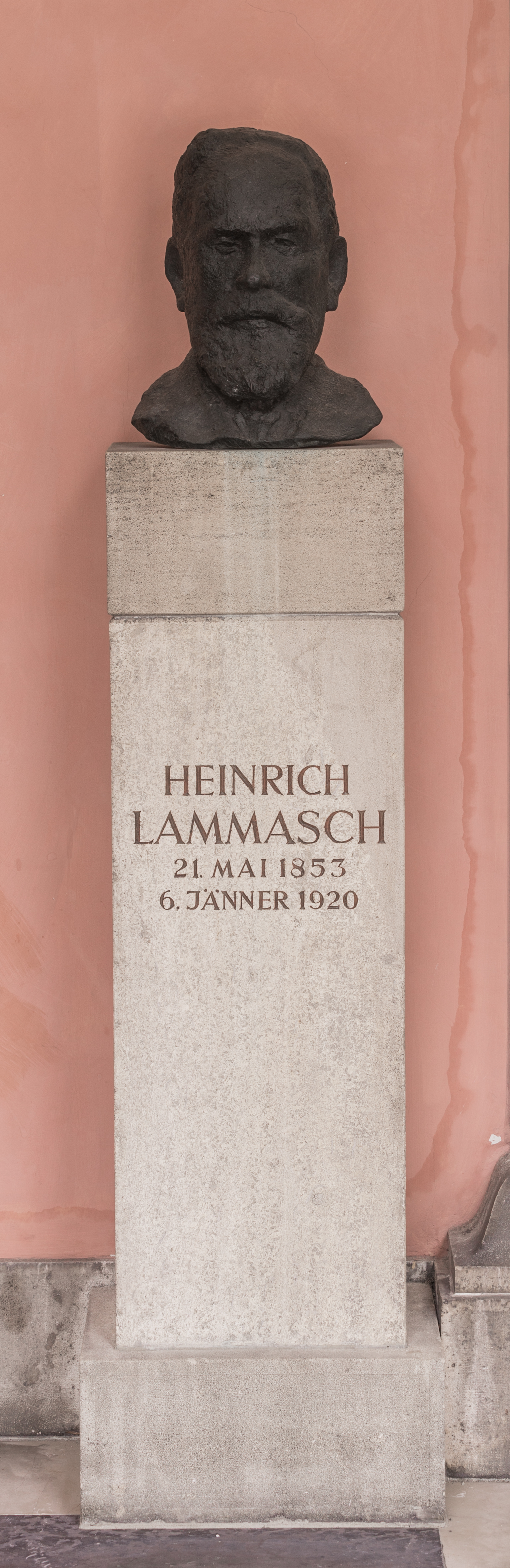 Heinrich Lammasch (1853-1920), bust (dark bronze) in the Arkadenhof of the University of Vienna, (Maisel# 19). Artist: Josef Humplik (1888-1958), unveiled 1953